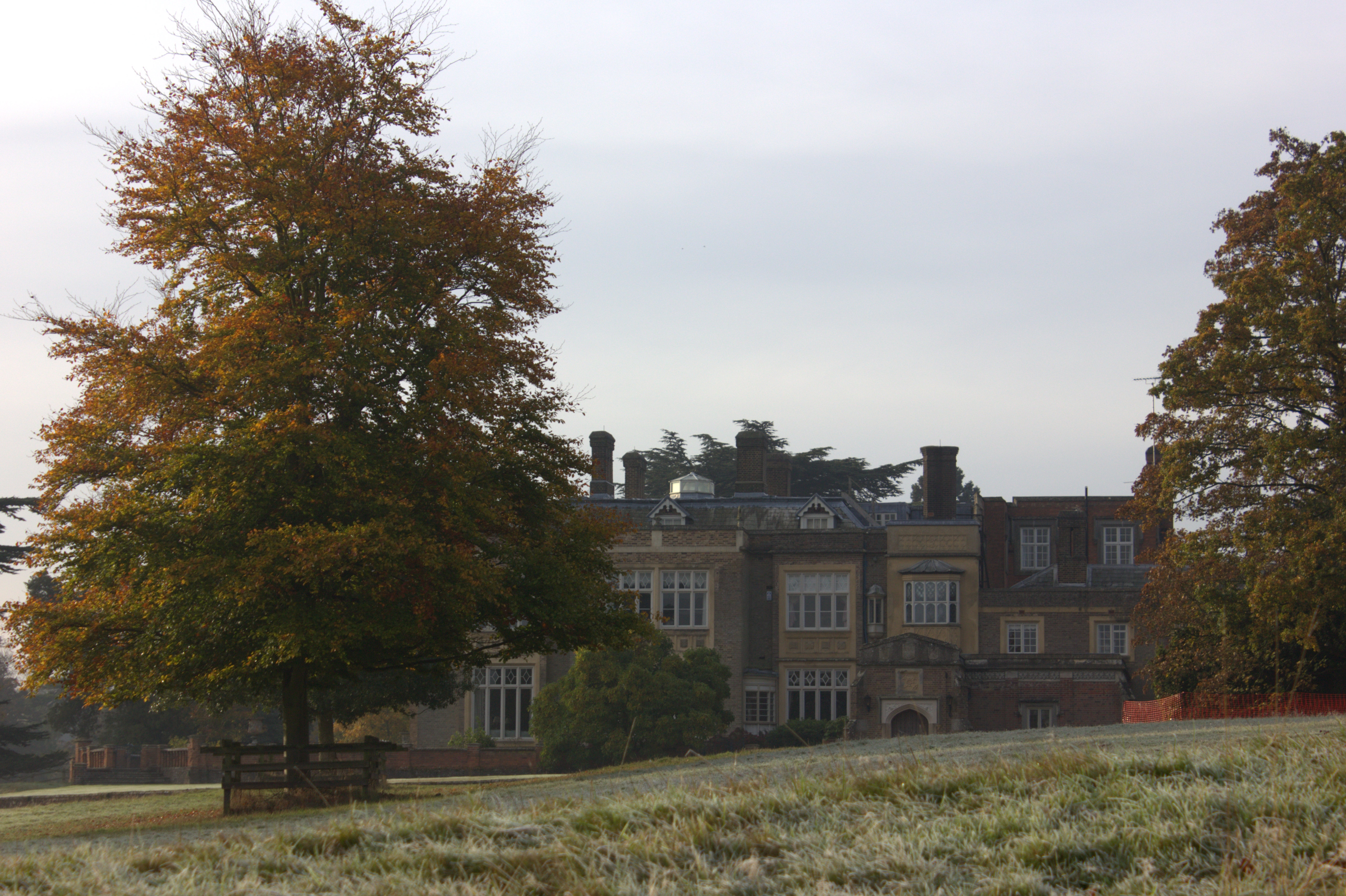 Munden House. Family seat of Viscount Knutsford. Not open to the public but it can be hired as a film location. It was the main filming location (as "Engleton Park") of the Rosemary & Thyme episode “Swords into Ploughshares” (2004).